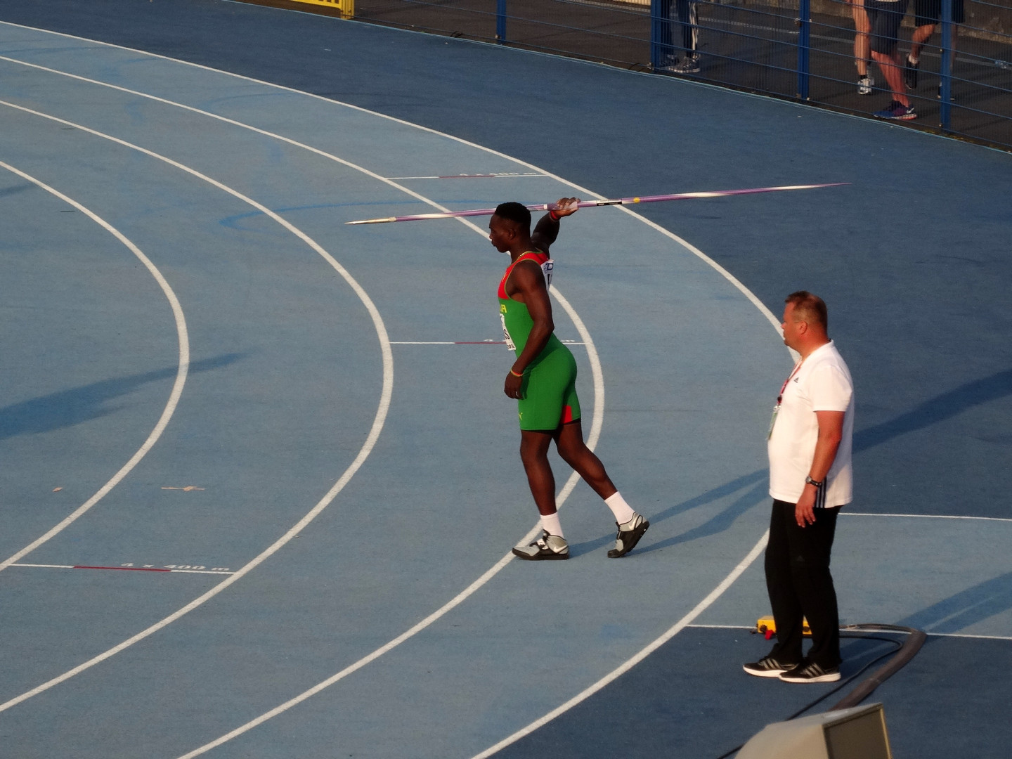 2016 IAAF World U20 Championships in Bydgoszcz, javelin throw men final